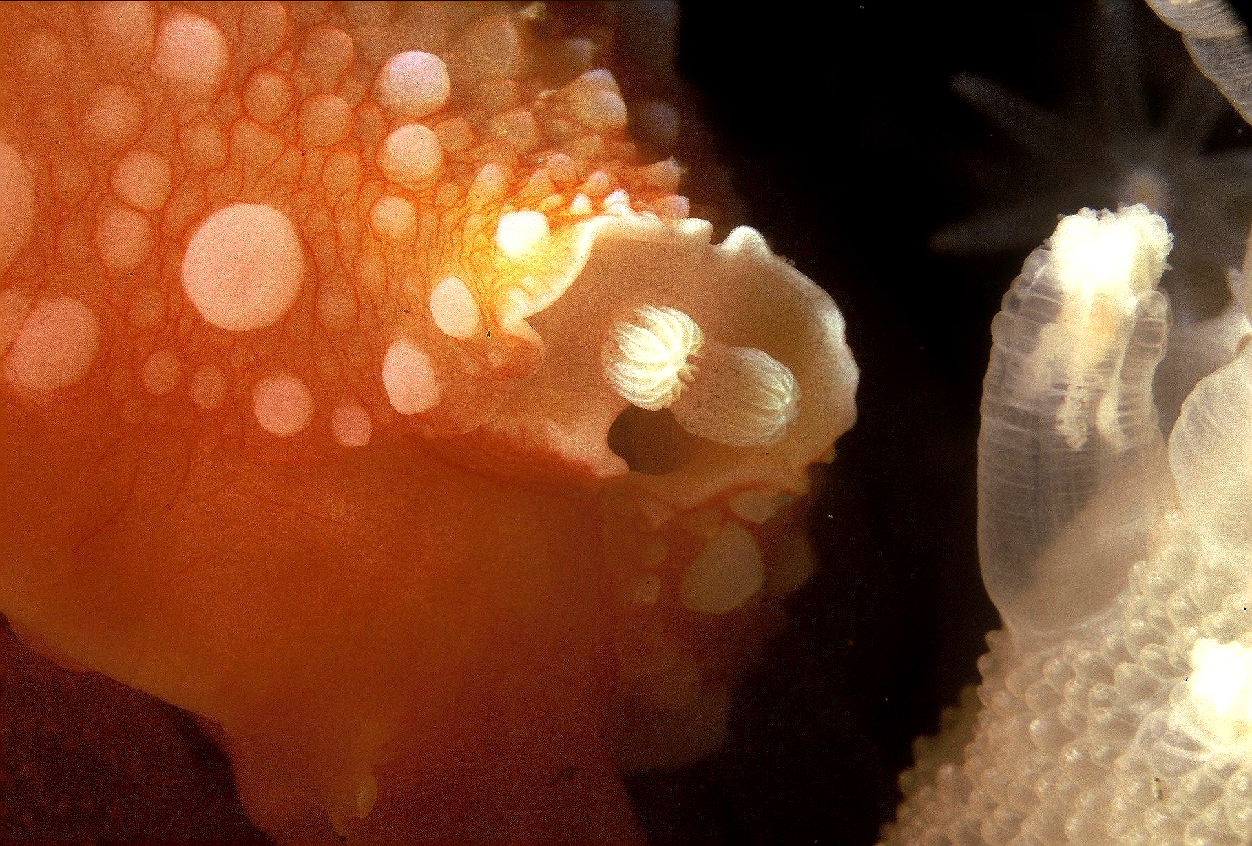 Armina maculata Rafinesque, 1814, Veretillum cynomorium Linnaeus, 1758 will be devoured by the mollusk (pers. obs.)